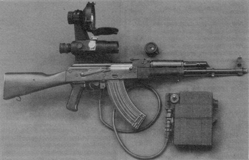 AKM assault rifle with NSP-2 night sight